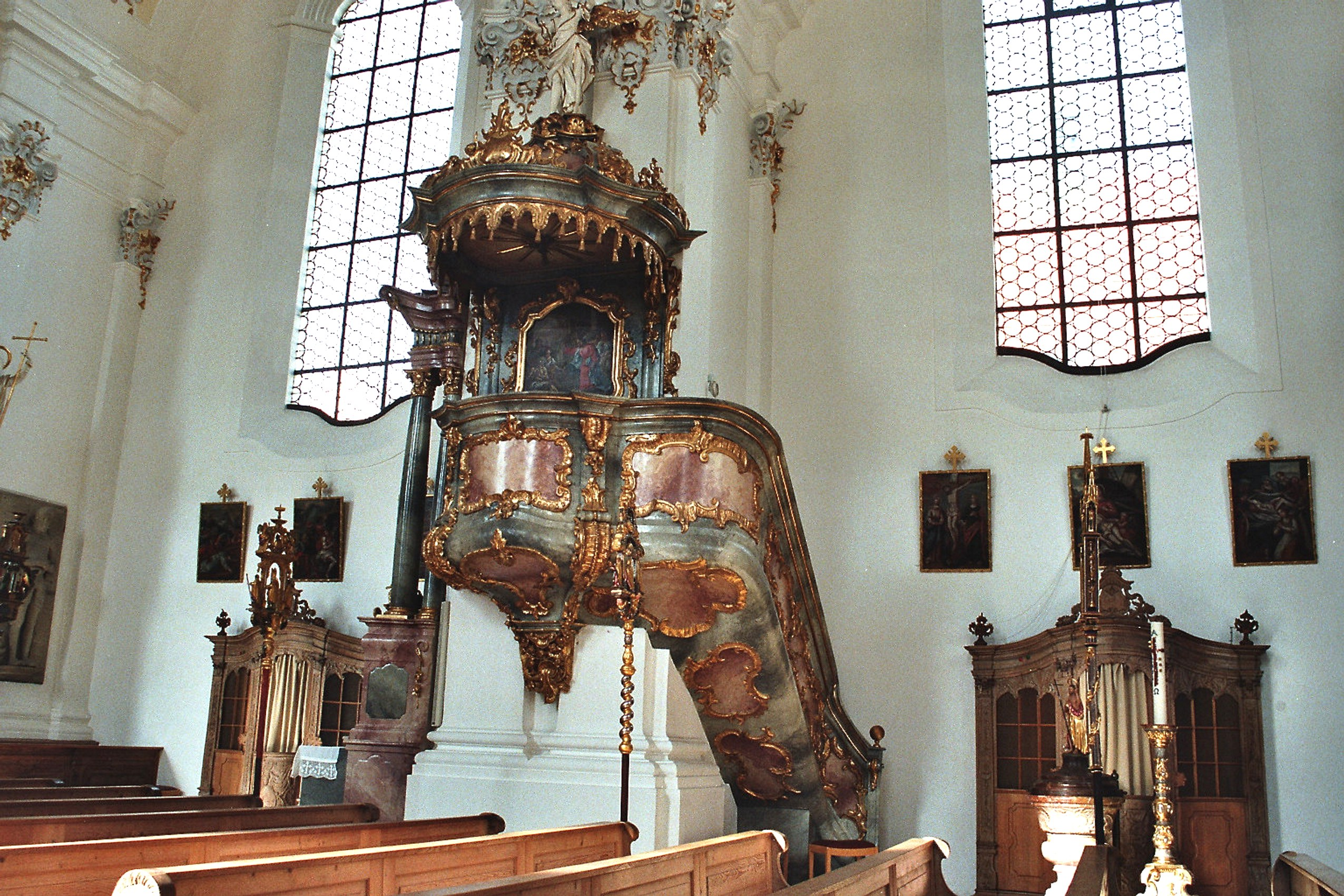 Schongau, church of the Assumption, the pulpit